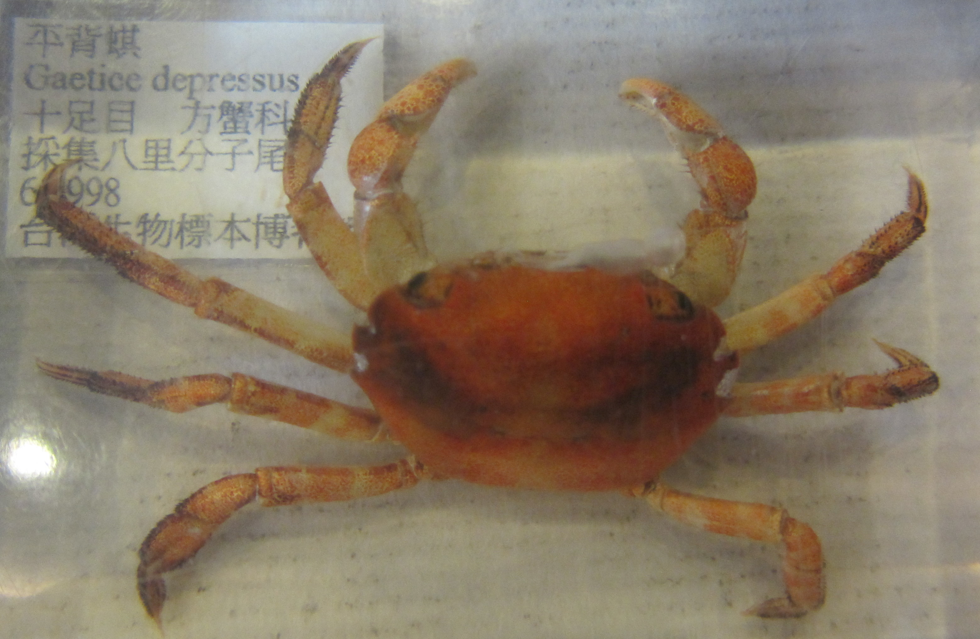 Specimen of Gaetice depressus